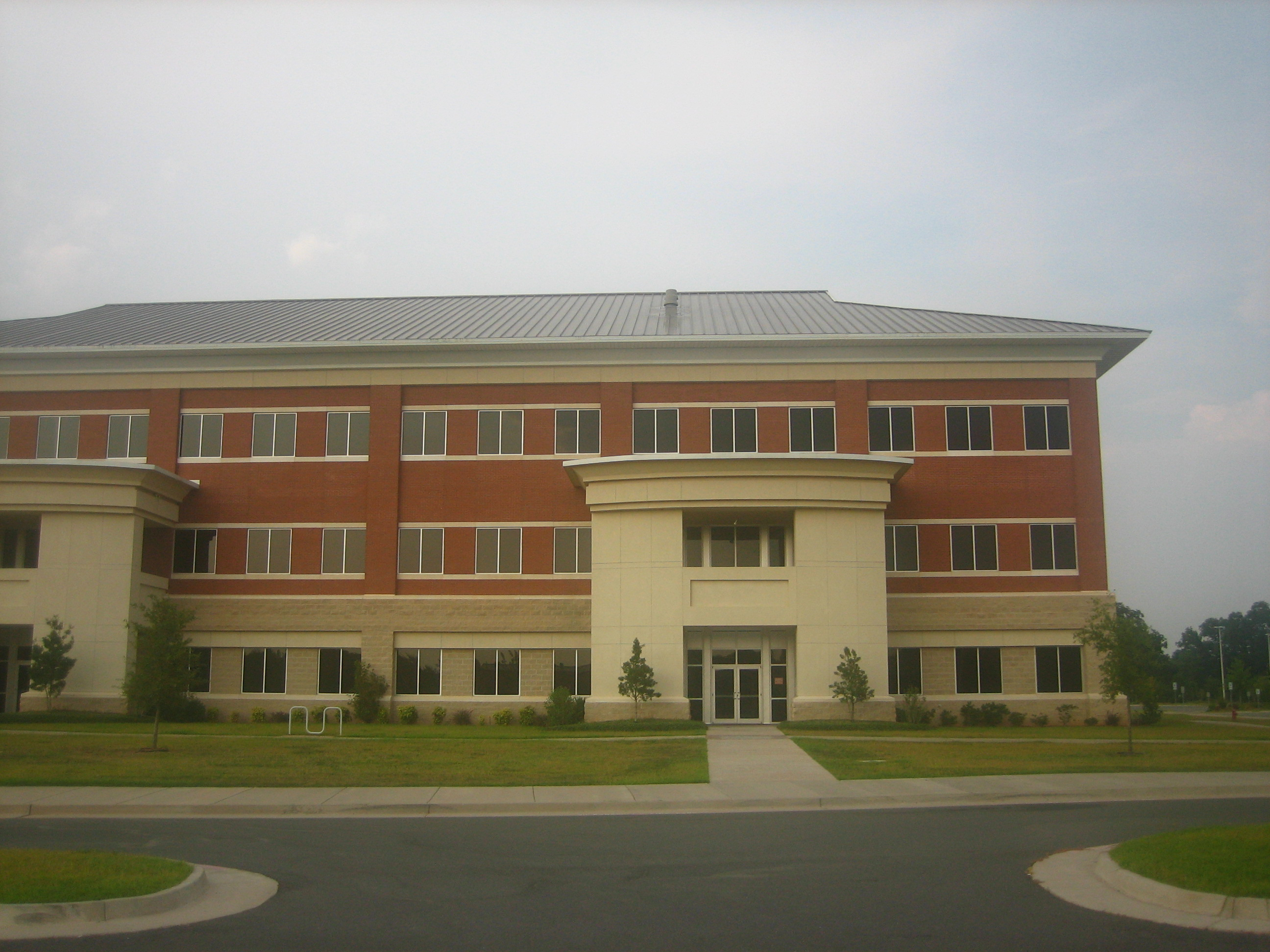 I took photo on Aug. 3, 2008.Billy Hathorn (talk) 05:28, 13 August 2008 (UTC)